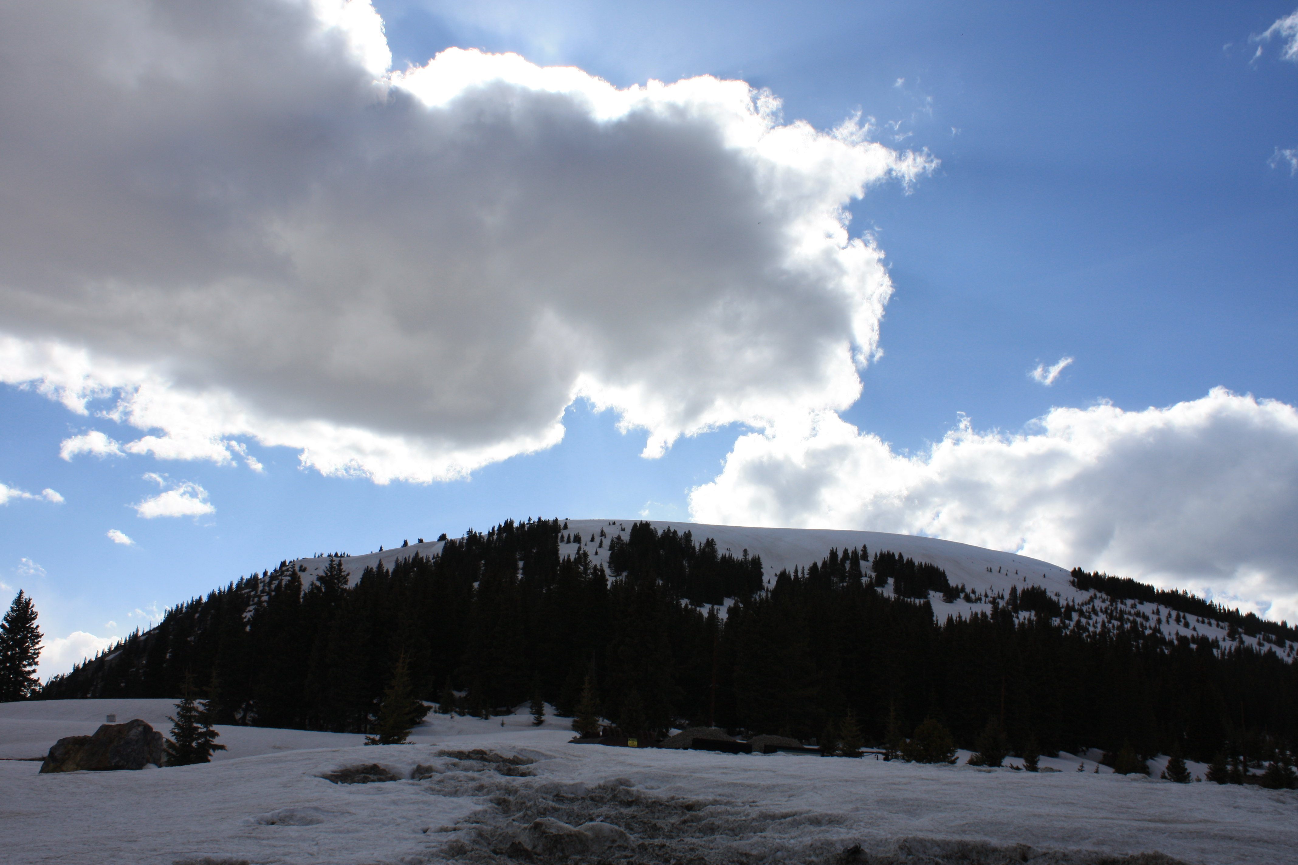 A heavenly shot of Chalk Mountain, taken from Fremont Pass, just across from the Climax Mine along Colorado State Highway 91.